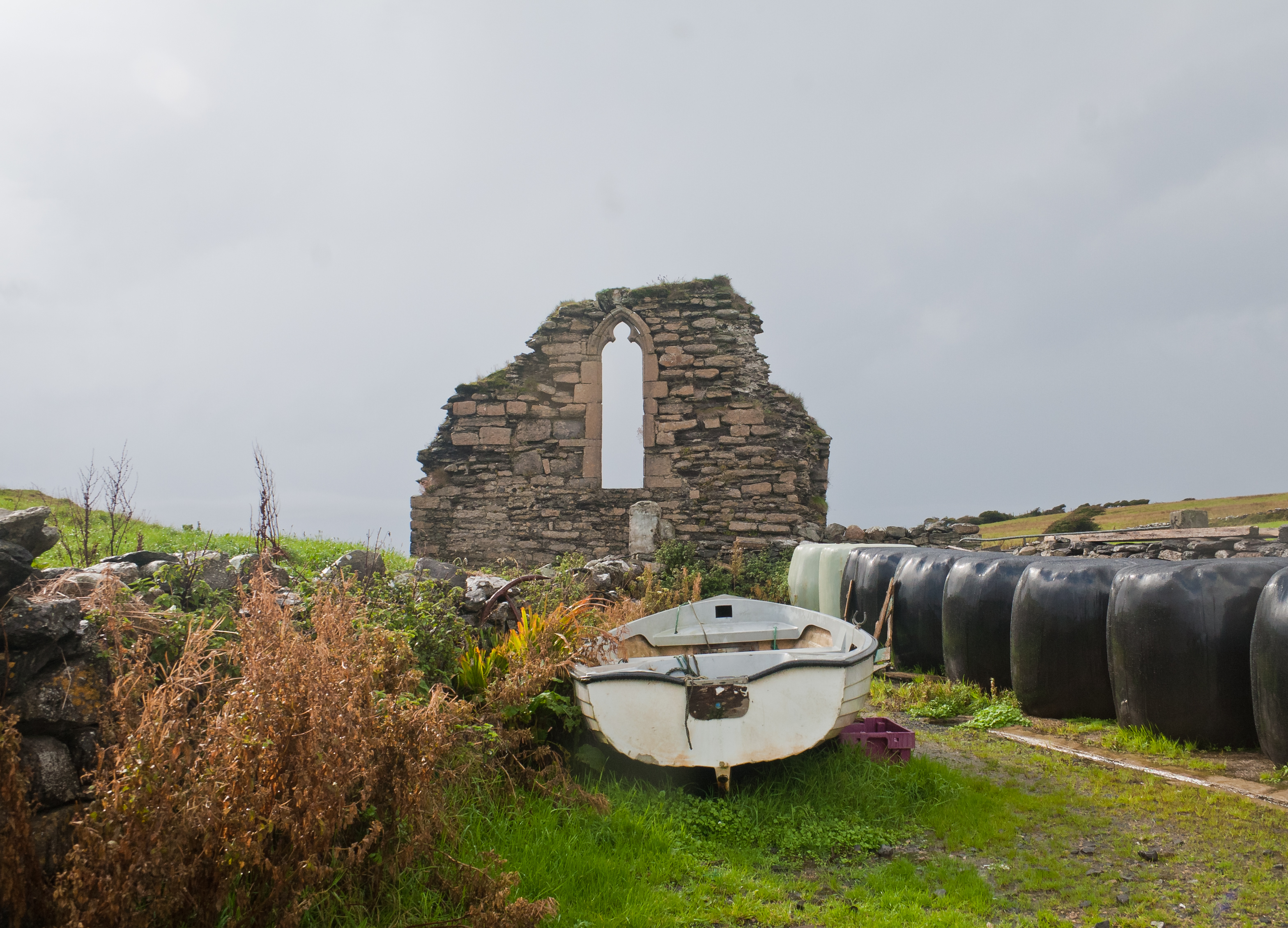 East window of Ballysaggart Friary with a boat and silage bales in front.